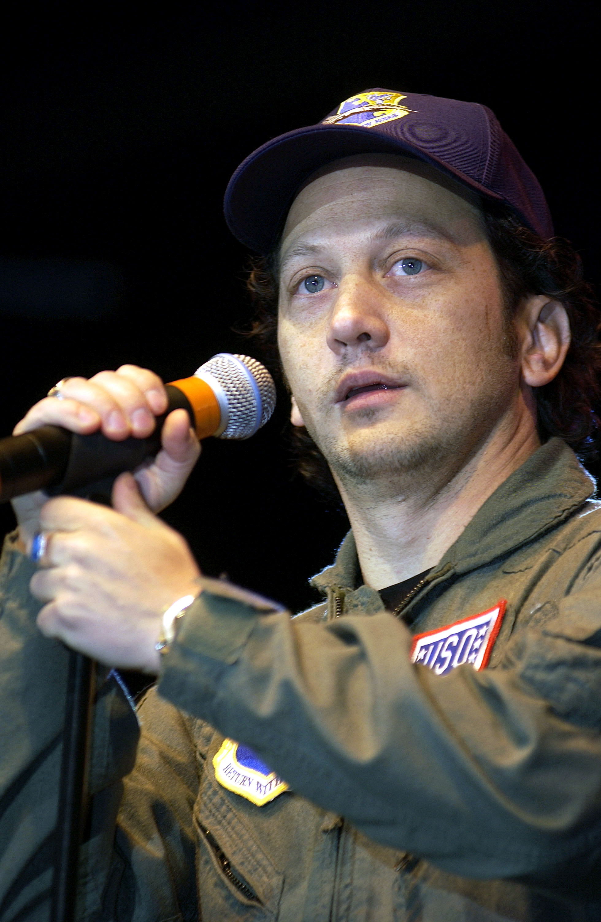 Comedian Rob Schneider performs for Aviano Air Base spectators at the USO Holiday Tour 2001 show. The USO produces at least 20 overseas entertainment tours each year, reaching tens of thousands of service men and women. Well-known entertainers volunteer their time to perform morale-boosting shows for US military personnel stationed overseas.